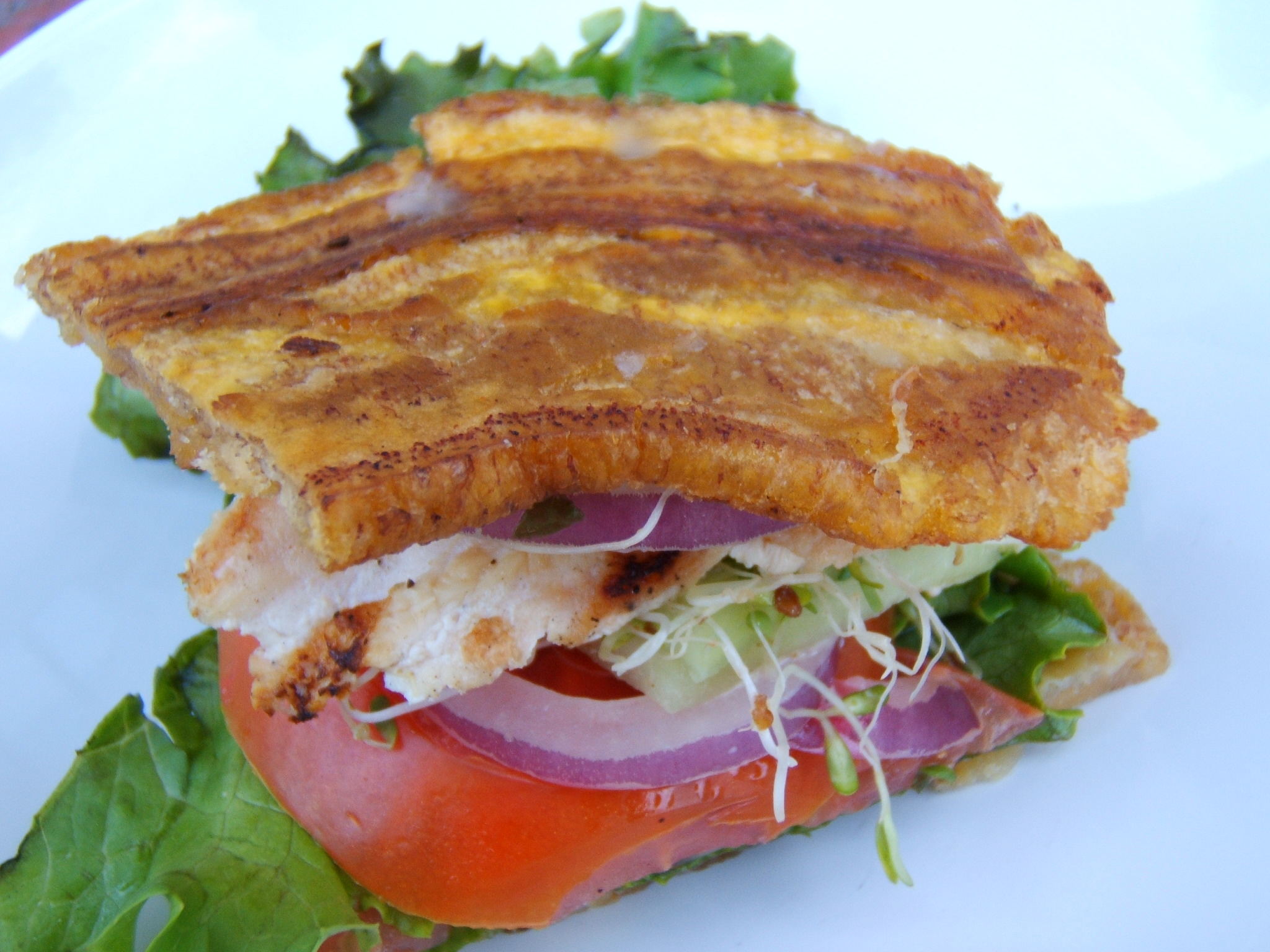 A jibarito sandwich. The fillings include grilled chicken breast, tomato, alfalfa sprouts, cucumber, lettuce, and red onion, held together by two flat pieces of starchy fried plantain. Photo taken at the Dish Cafe in Goleta, United States. Photo taken with a a Fujifilm FinePix E510 digital camera.